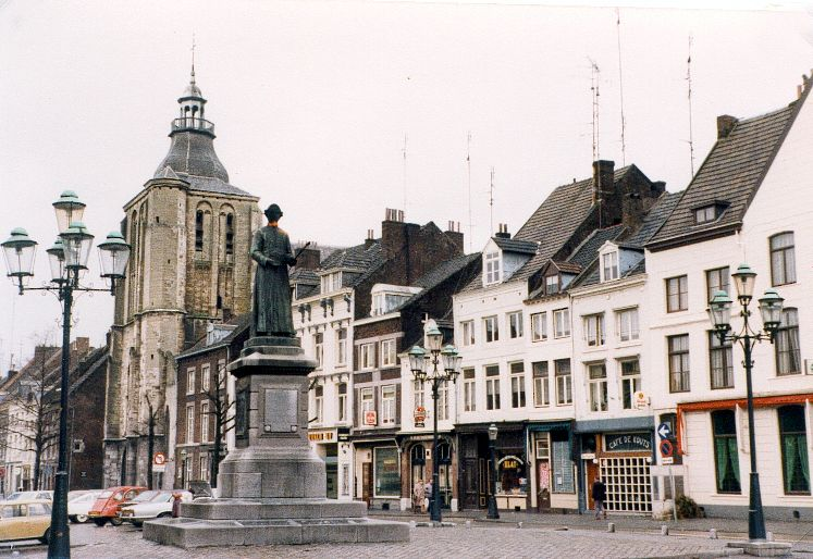 statue of Minckeleers, at the south end of the Boschstraat, where is meets the Market.